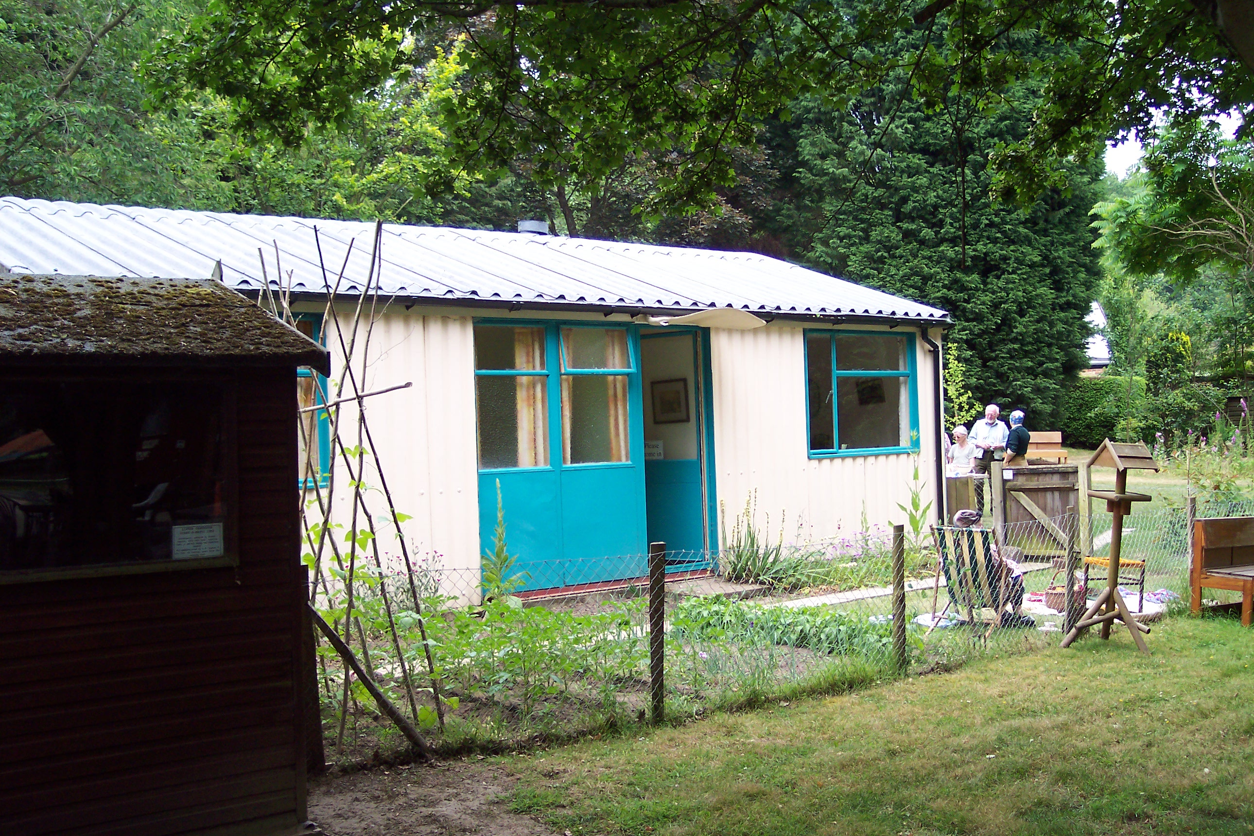 A 1950's metal UK prefab at the Tilford Surrey "Rural Life Centre"